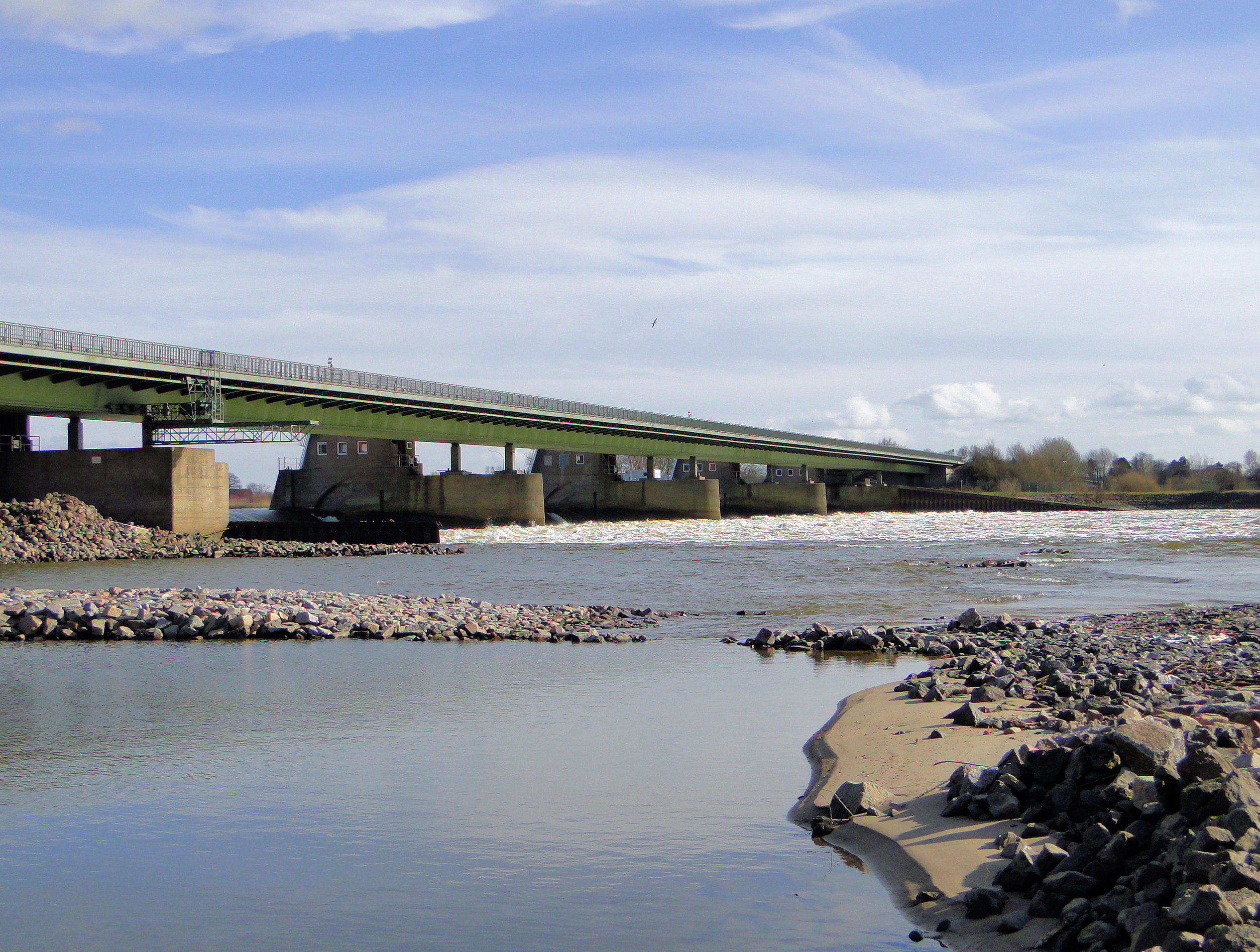 Weir in Geesthacht, disctrict Herzogtum Lauenburg, Schleswig-Holstein, Germany